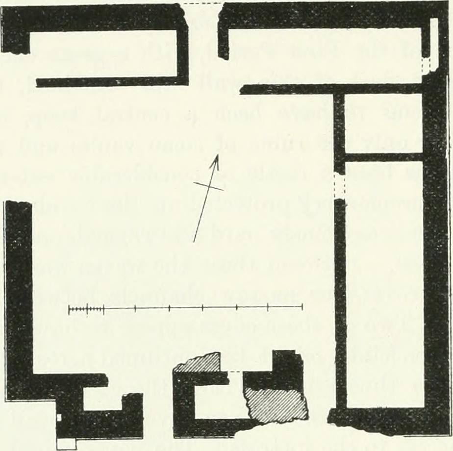 Floor plan of Kincardine Castle near Fettercairn, Kincardineshire. From: Macgibbons and Ross: The castellated and domestic architecture of Scotland, from the twelfth to the eighteenth century, Vol III, p 112. Edinburgh 1889